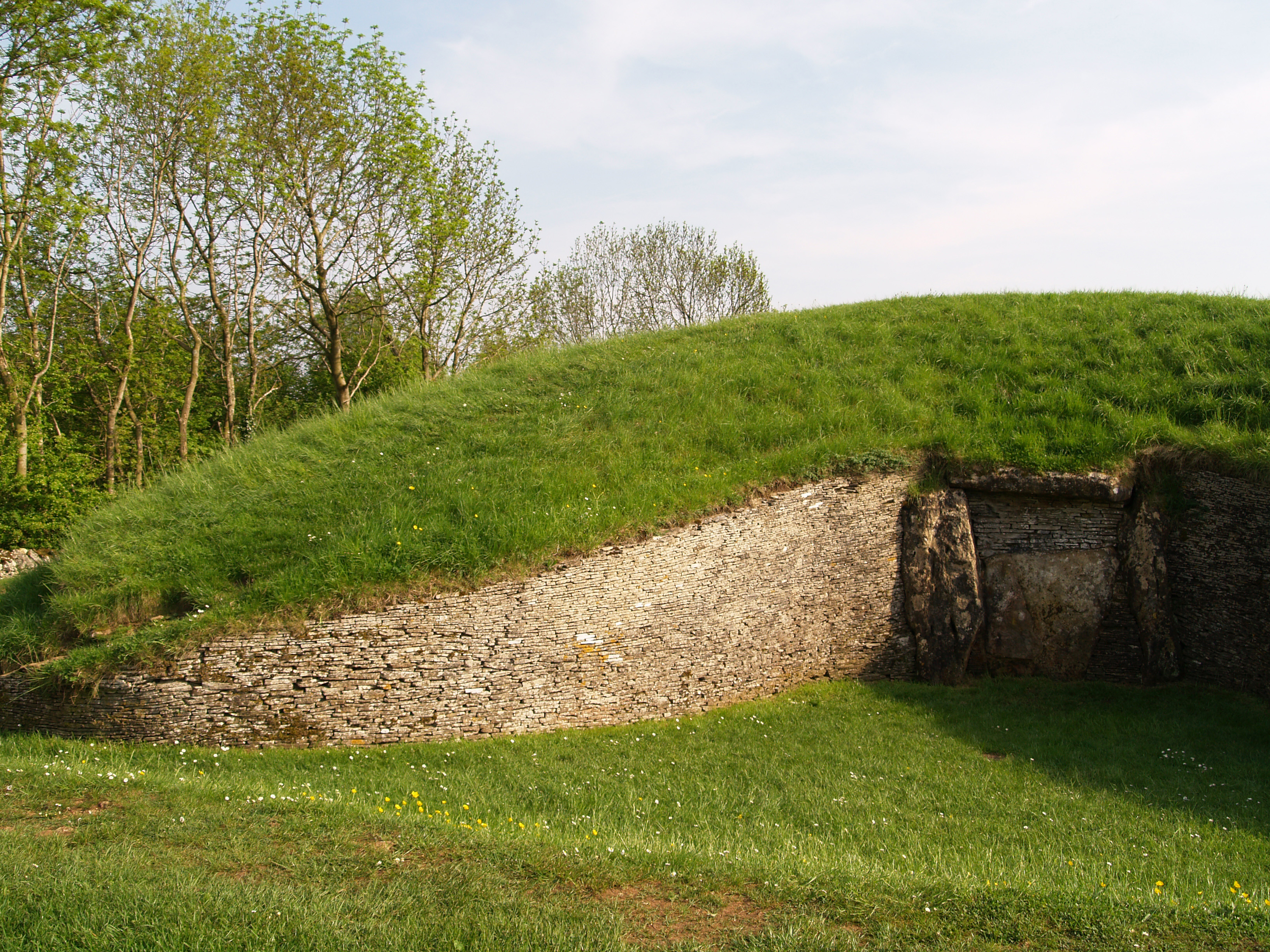 Picture of the front Chamber of Belas Knap